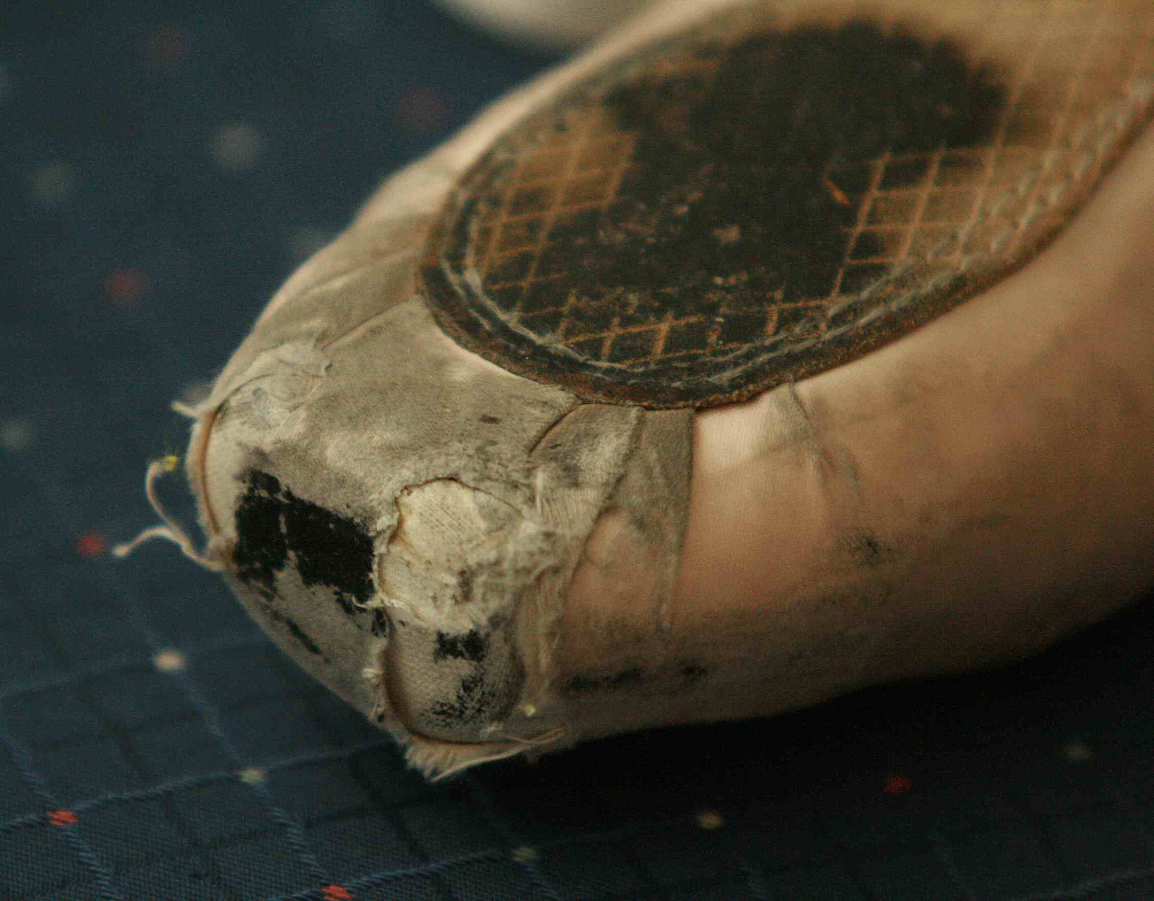 Typical wear on a pointe shoe. The fabric has worn through, exposing the box. This shoe is still serviceable, although only suited for practice and rehearsal, so long as the shank is still functional.